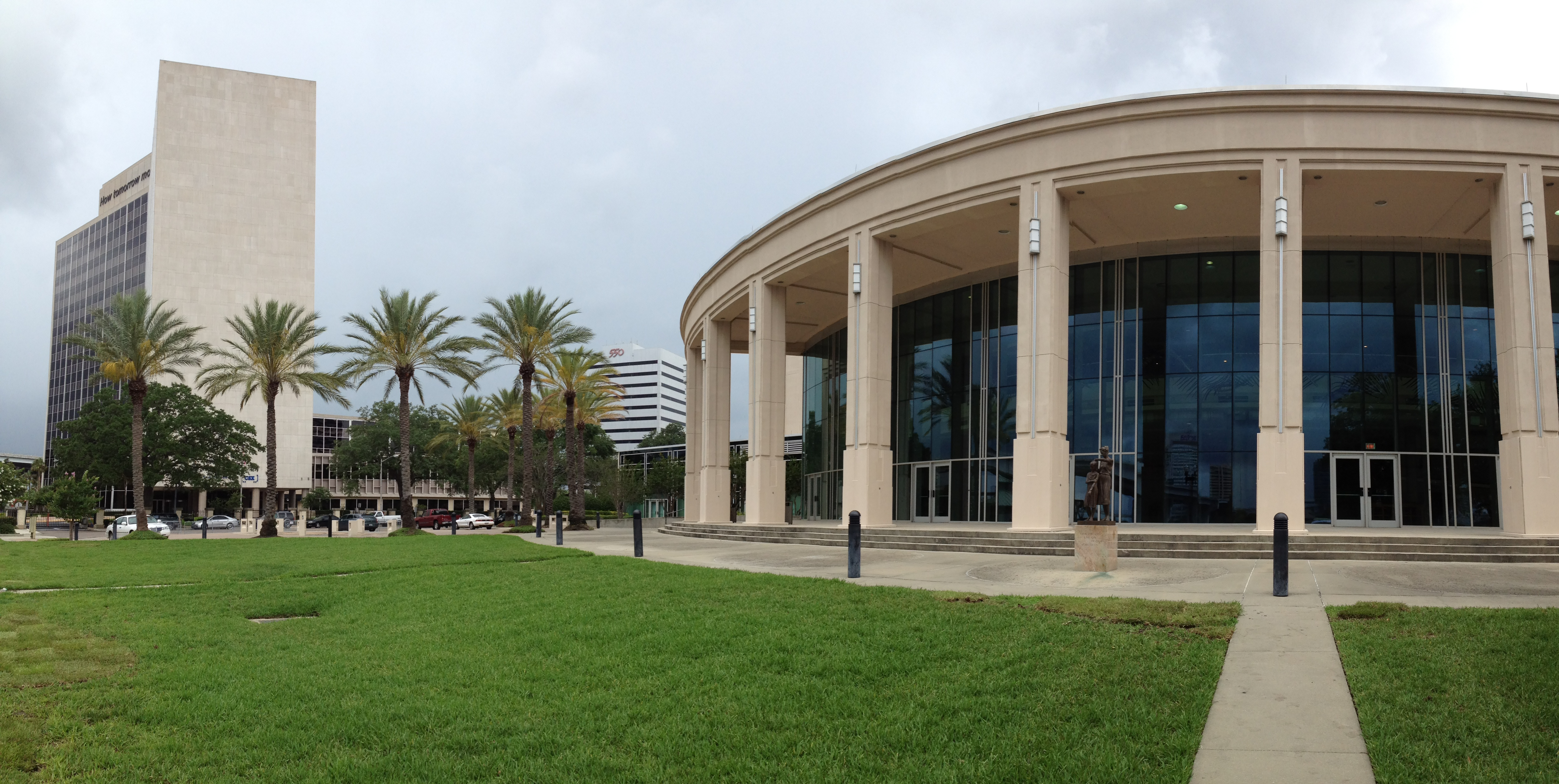 CSX and Time-Union Center